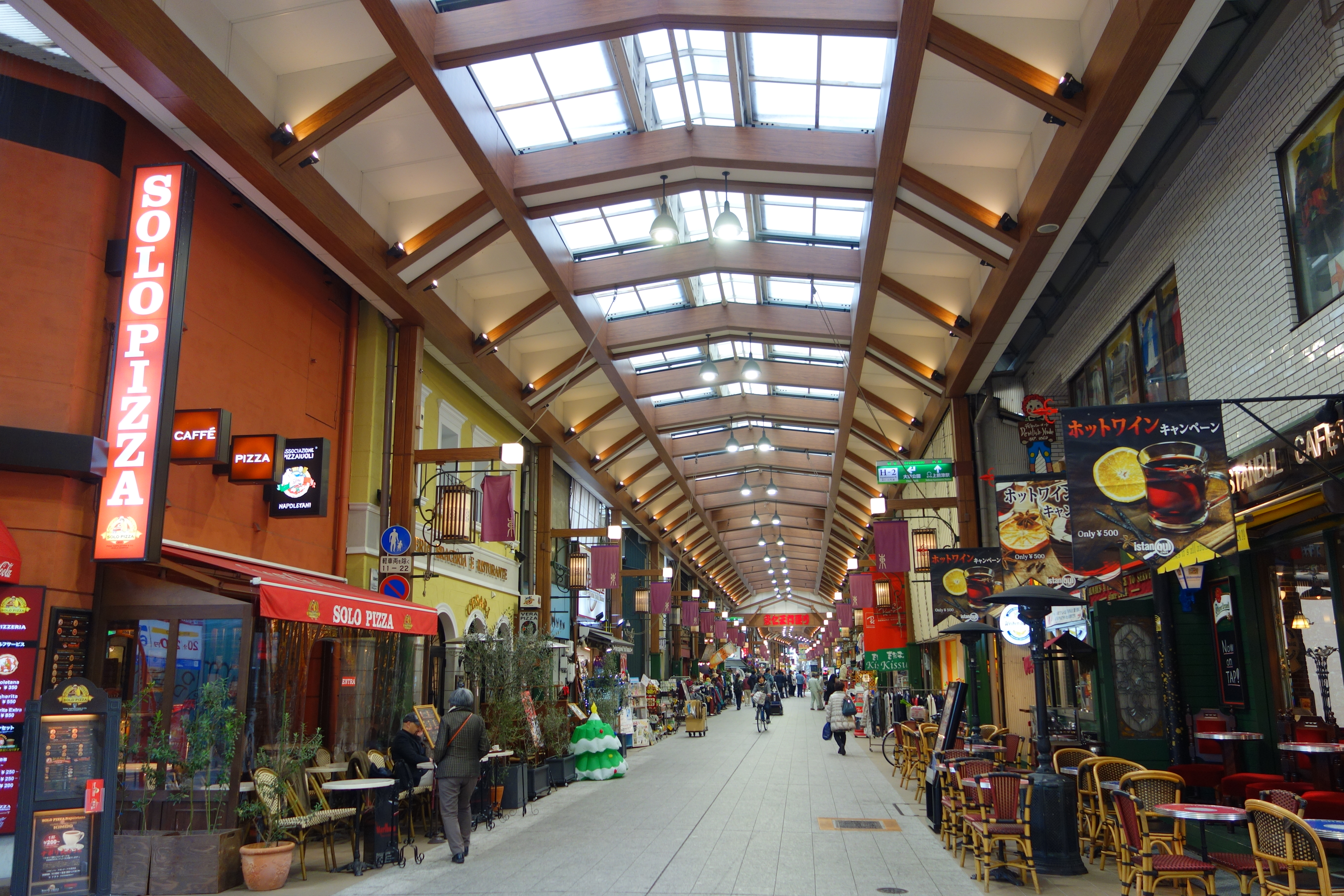 Osu, Nagoya, Aichi prefecture, Japan.